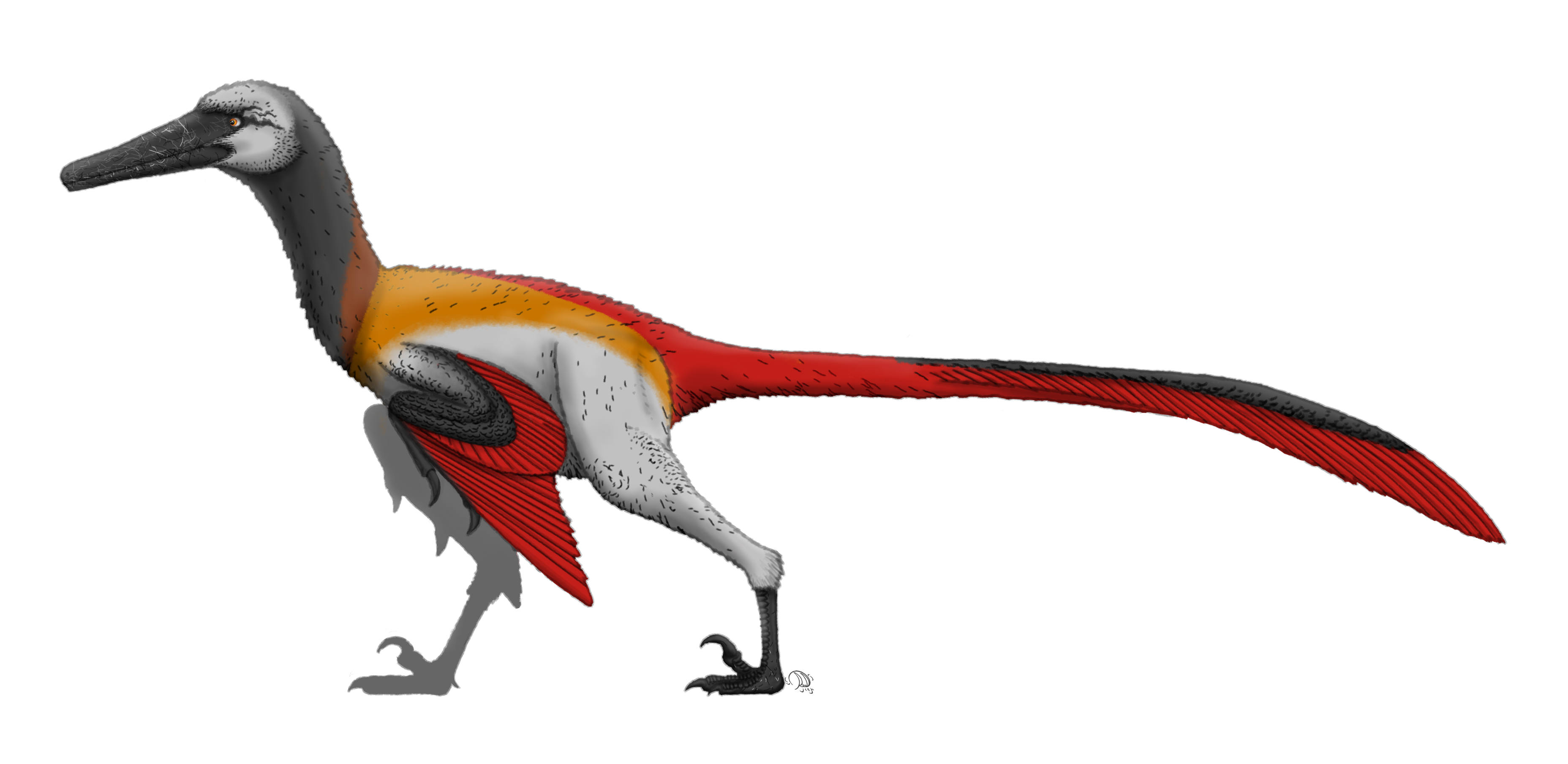 Life reconstruction of the dromaeosaurid theropod dinosaur Neuquenraptor argentinus, based on a skeletal by Slate WeaselFile:Neuquenraptor_Skeletal.svg.